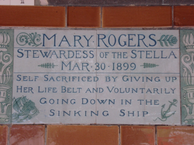 Memorial plaque on the Memorial to Heroic Self Sacrifice, Postman's Park, London. Plaque designed by William De Morgan.